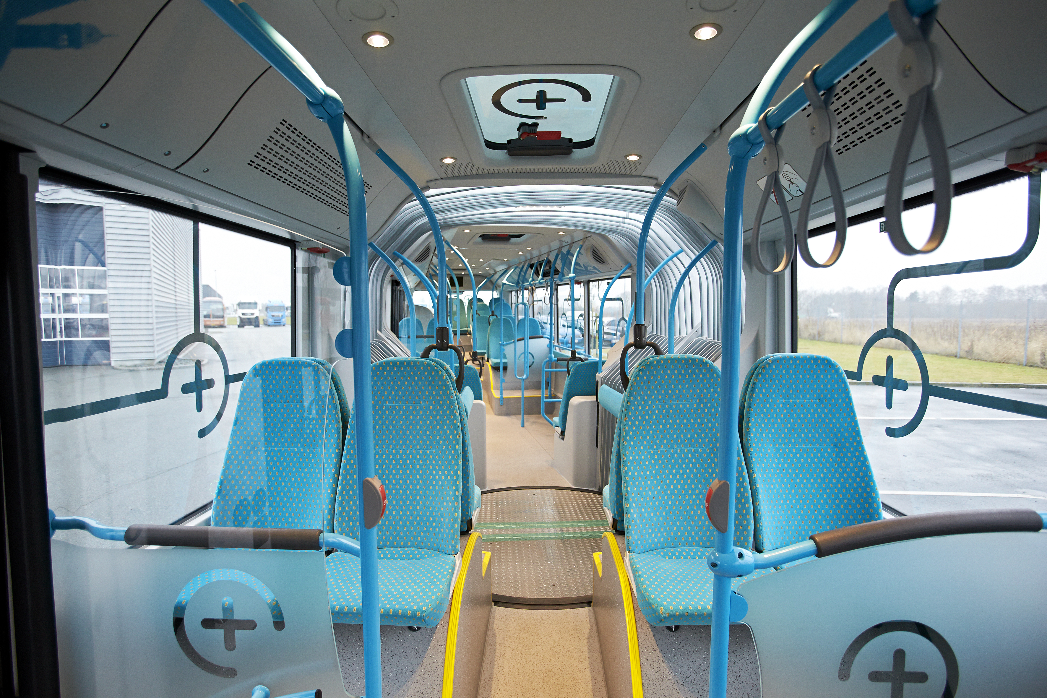 Presentation of articulated bus of the type MAN Lion’s City GL CNG for the new bus line 5C in Copenhagen.